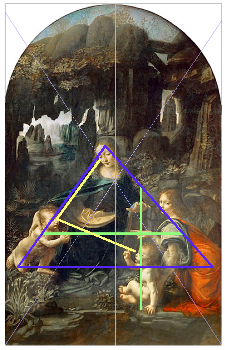 Composition of the Virgin with the rocks: in blue, pyramid; in green, cross resulting from the links between the hands; in yellow, look between the protagonists